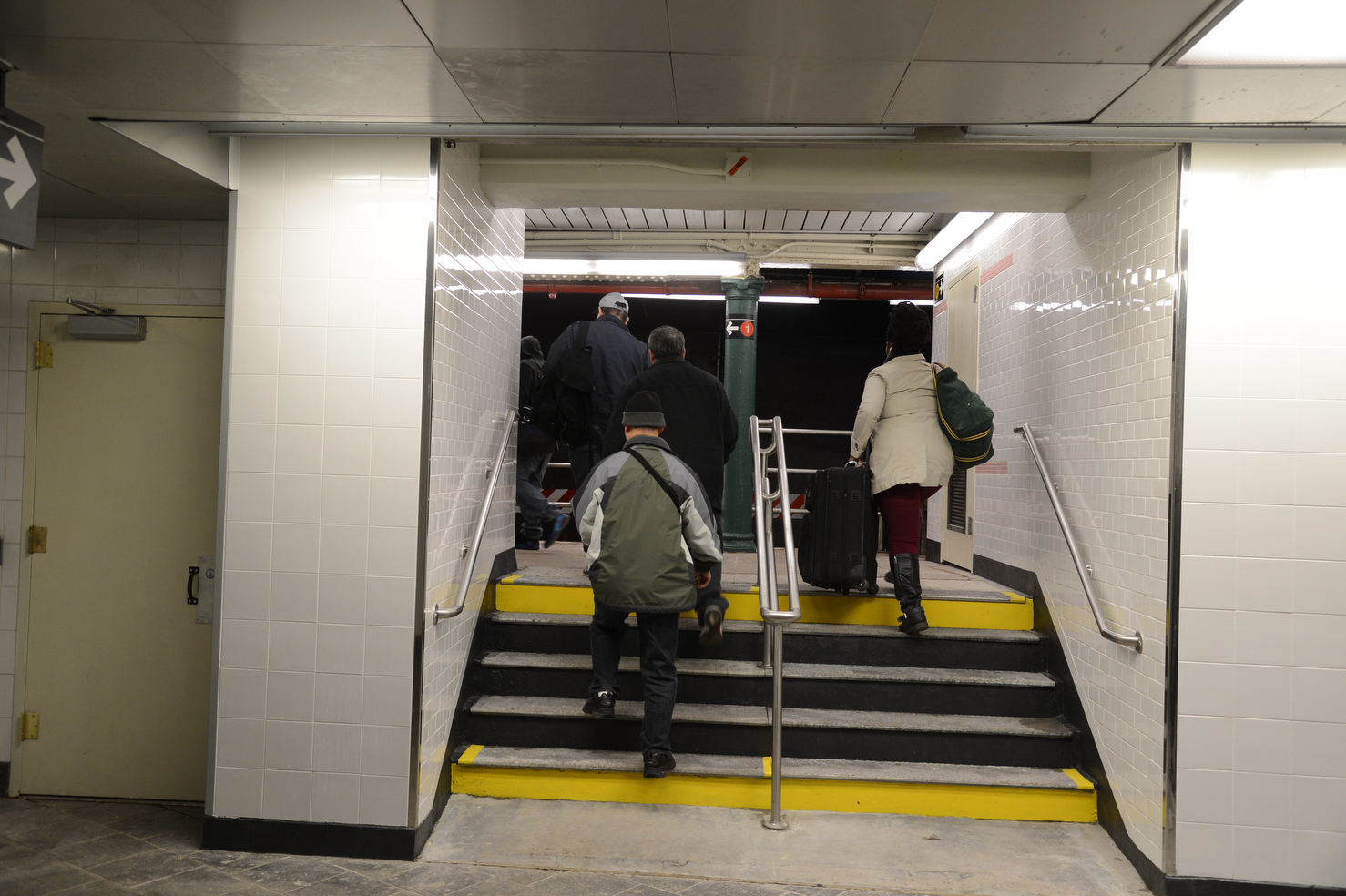 The old South Ferry station reopened to customers at 5:00 a.m. on Thursday, April 4, 2013. Closed since 2009, the station has been renovated and placed back in service while the new station, which was damaged during Hurricane Sandy, is repaired. Passageway between the 1 and R trains. Photo: Marc A. Hermann / MTA New York City Transit